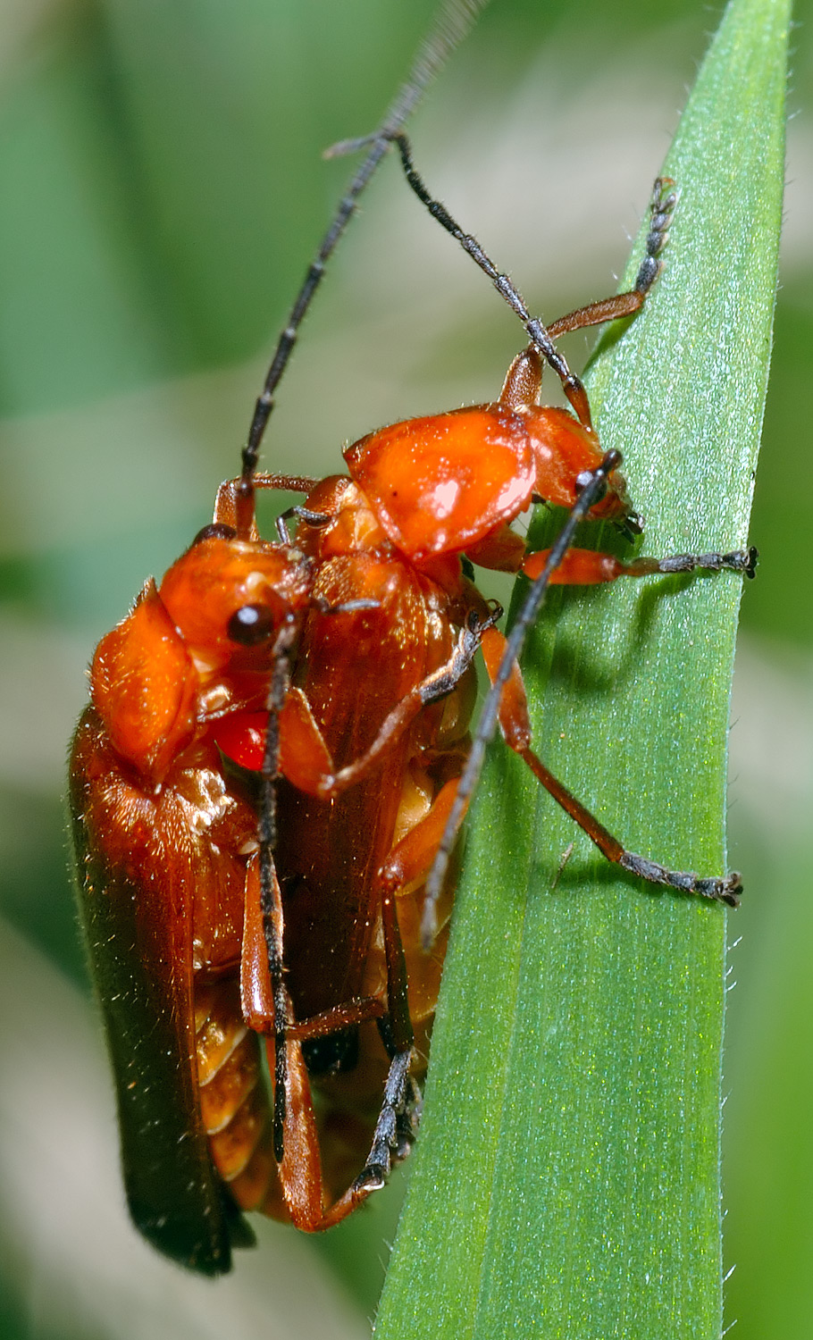 This image shows two 0.38 inch (9.6 mm) long common red soldier beetles (Rhagonycha fulva).